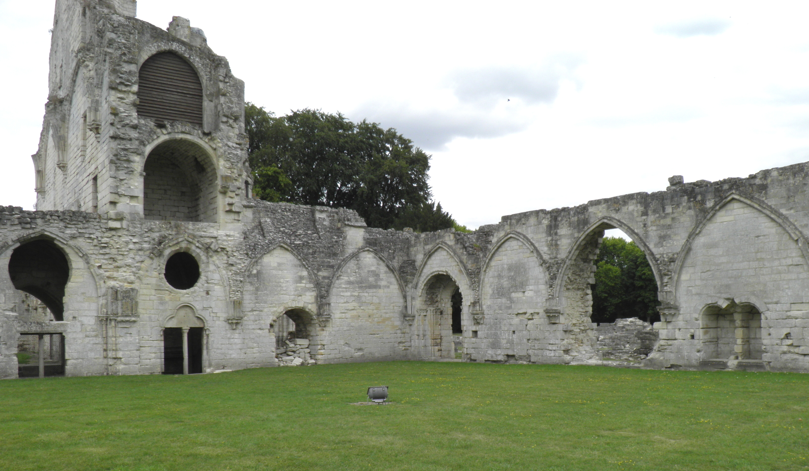 Ruins of the cloister. Chaalis Abbey.